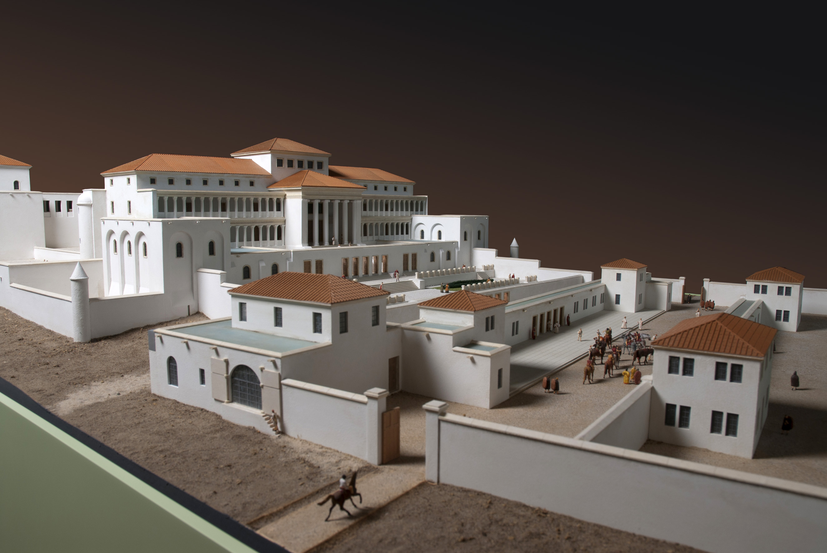 Scale model of Colombier roman villa (Neuchâtel) at the end of 2nd century A.D. Picture by J. Roethlisberger / Laténium.